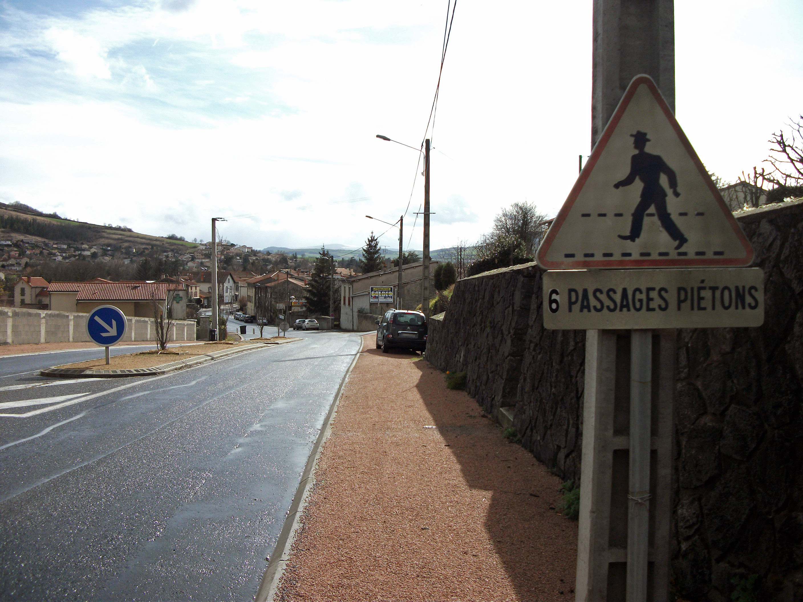 Old A13b road sign in departmental road 978 in Veyre, Veyre-Monton, Puy-de-Dôme, France [10170]